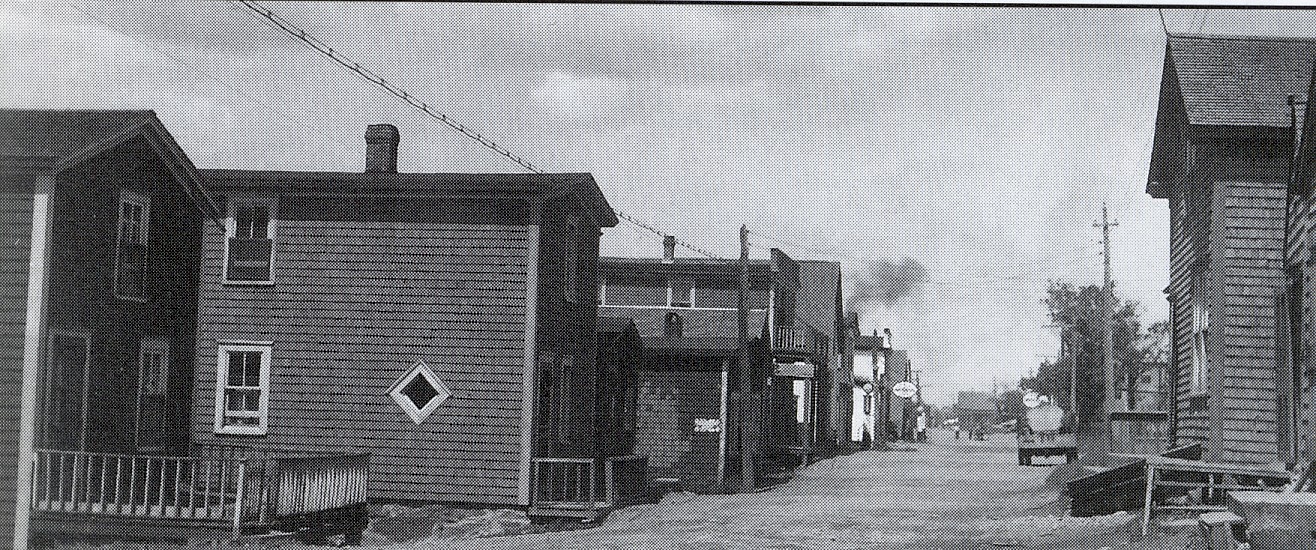 The main street of Chéticamp, Nova Scotia (Canada).